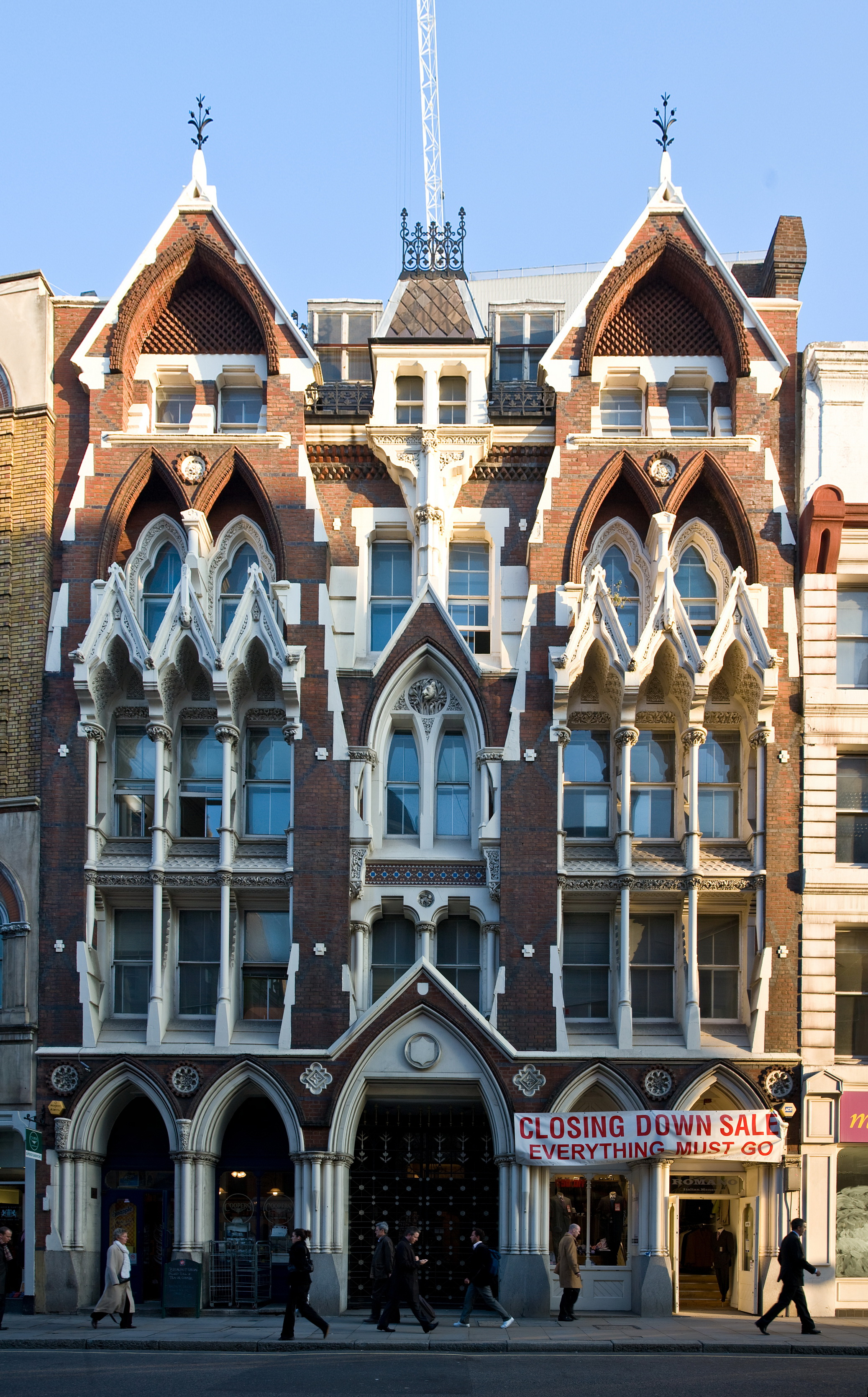 33-35 Eastcheap, City of London, United Kingdom. A perspective corrected 3 segment mosaic image taken by myself with a Canon 5D and 24-105mm f/4L IS lens.